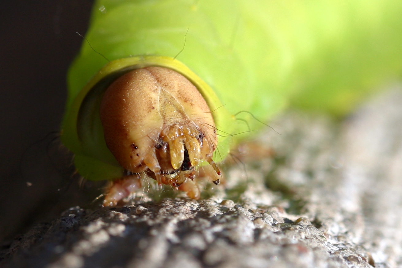 Close-up of a caterpillar's face, taken in Pittsburgh, Pennsylvania on 20 August 2006. Source: Taken by user (Tom Murphy VII).